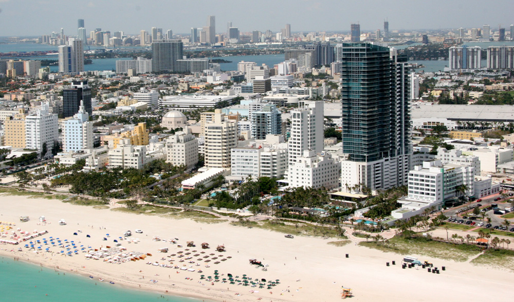 original description: Photo taken from helicopter ride April 2006.